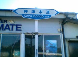 Kozu Hondo Av. Kozu, Tokyo, Japan